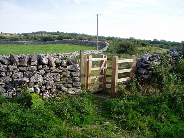 Start of the footpath across Hutton Roof Crags. The Limestone Link, a 13-mile walk from Arnside to Kirkby Lonsdale, crosses the road here.